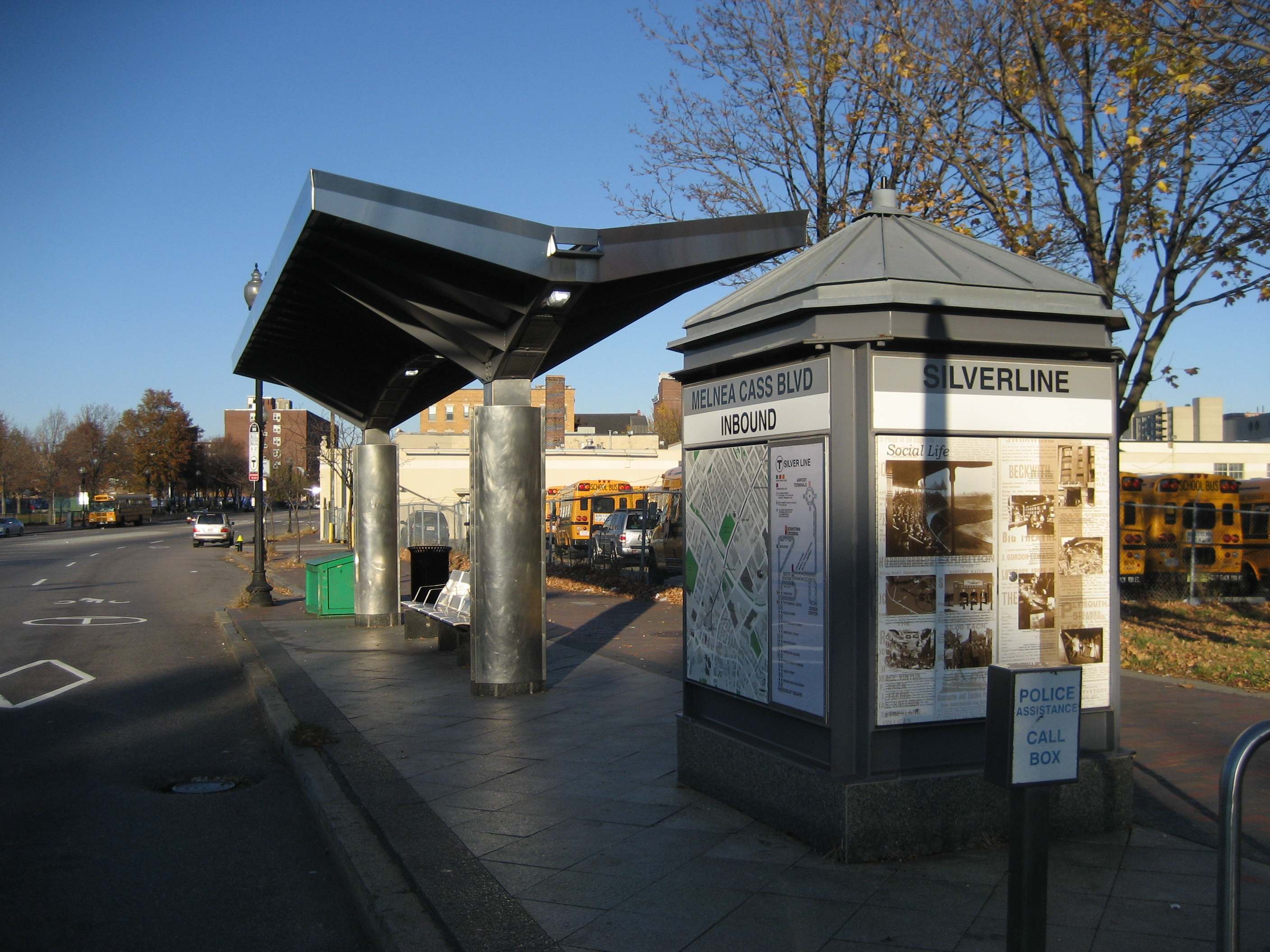 Melnea Cass Boulevard station inbound platform on the MBTA Silver Line.